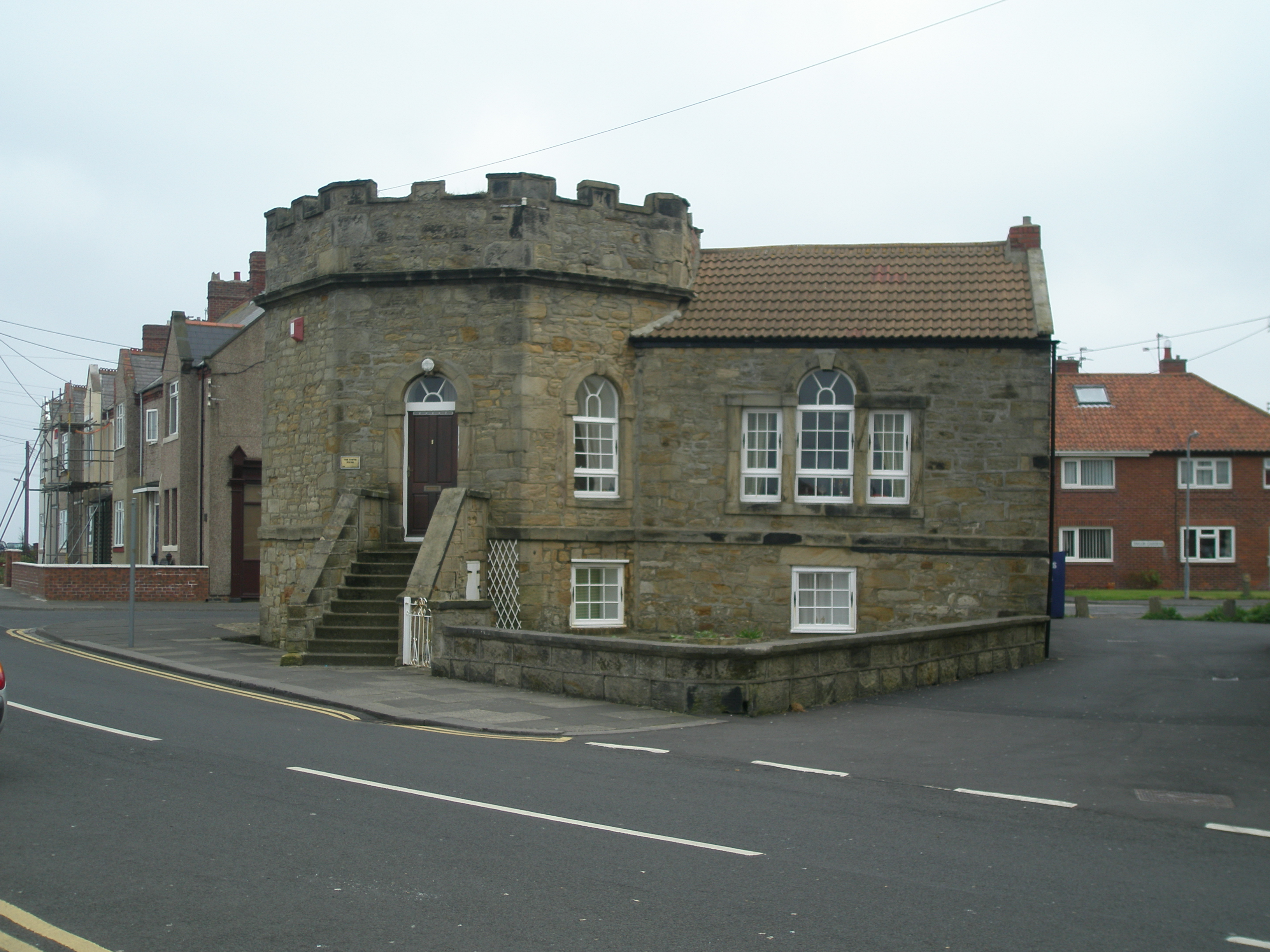 Octagon House, former harbour office in Seaton Sluice.